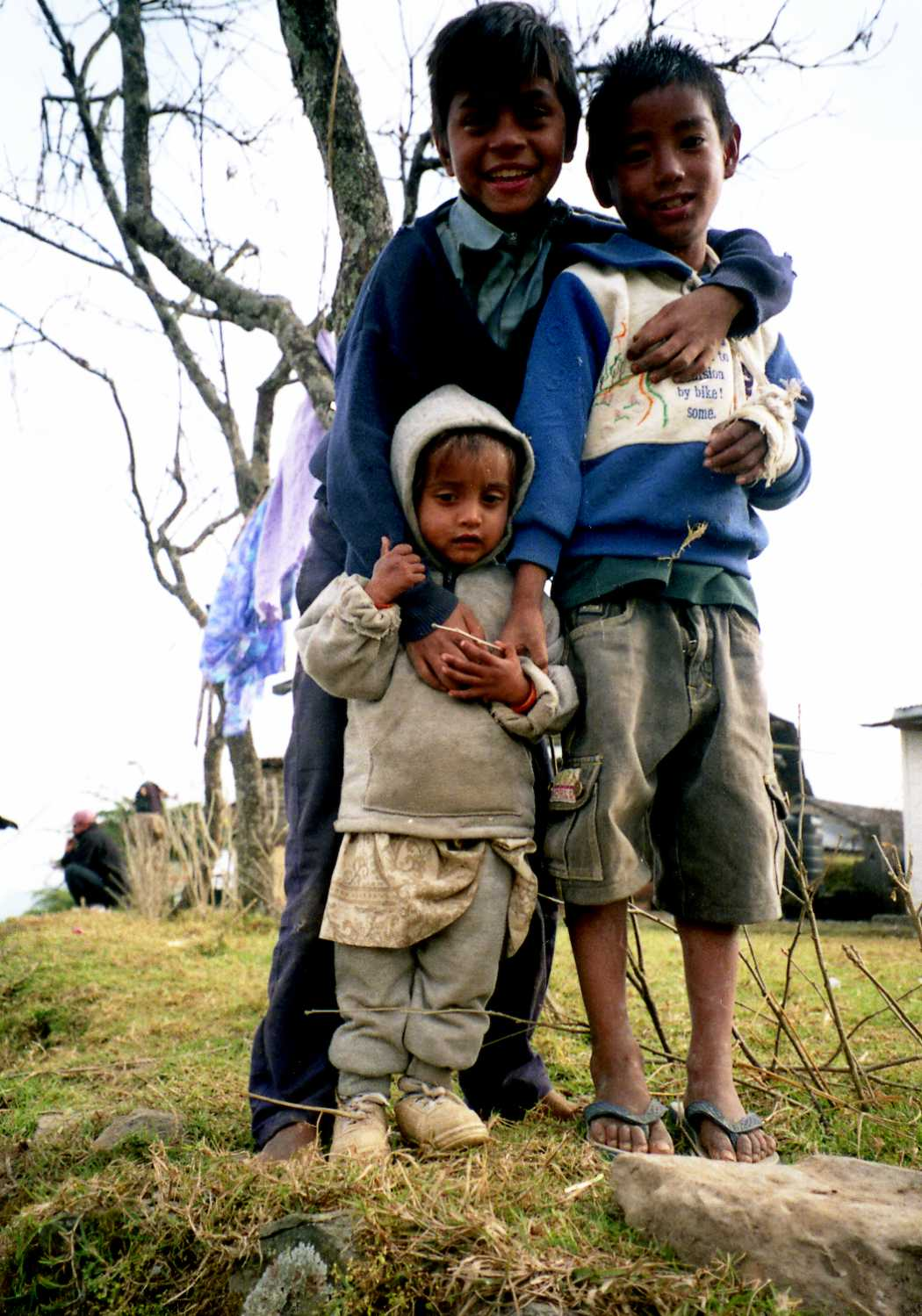 संघीय लोकतान्त्रिक गणतन्त्र नेपाल nepal ネパール人